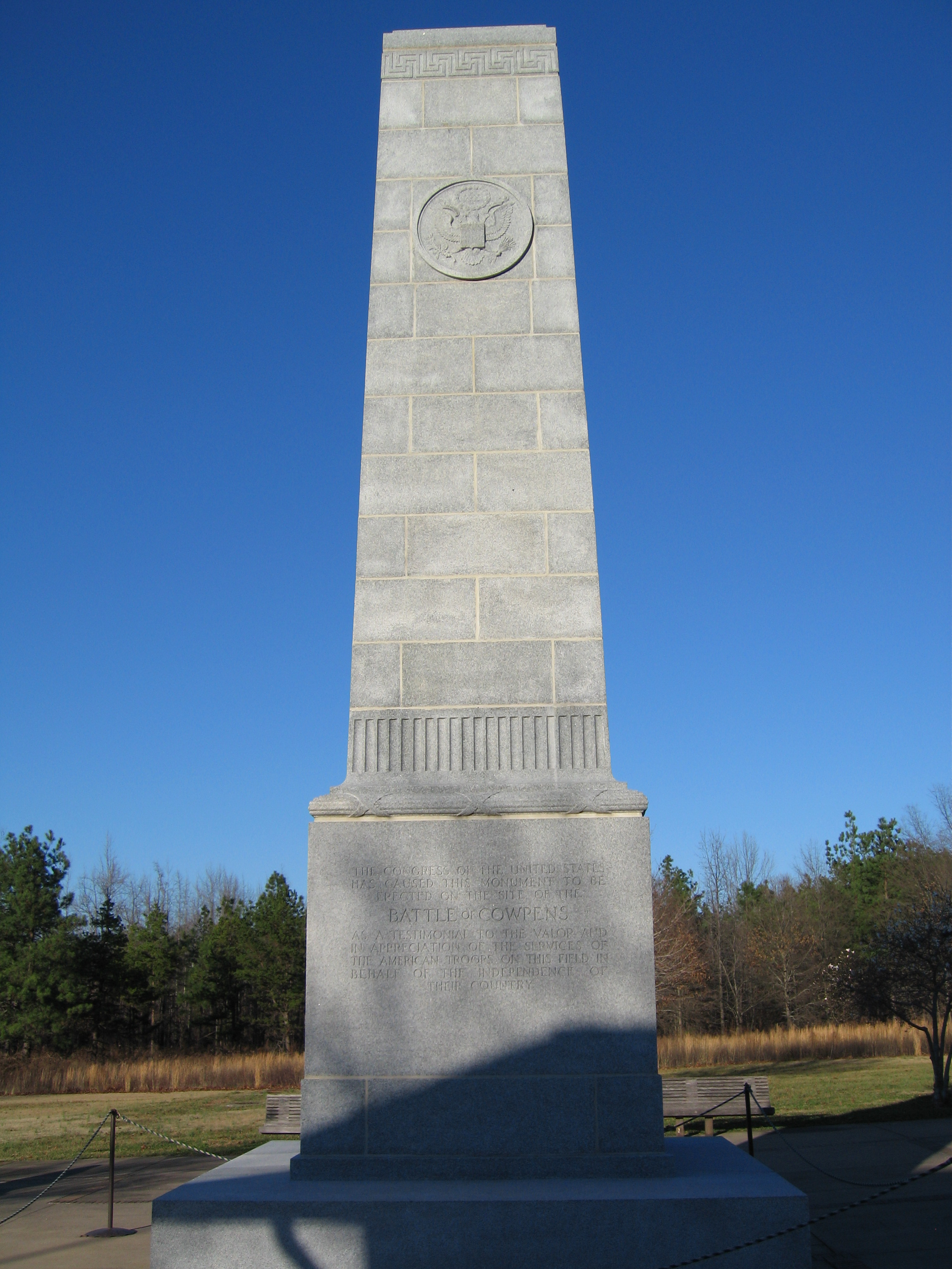 Monument at the site of the Battle of Cowpens.